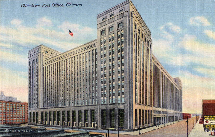 161, The New Chicago Post Office, dedicated February 15, 1933